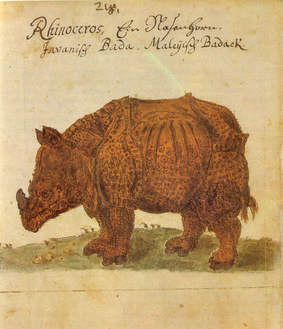 colored drawing by Caspar Schmalkalden (c.1618-c.1668)